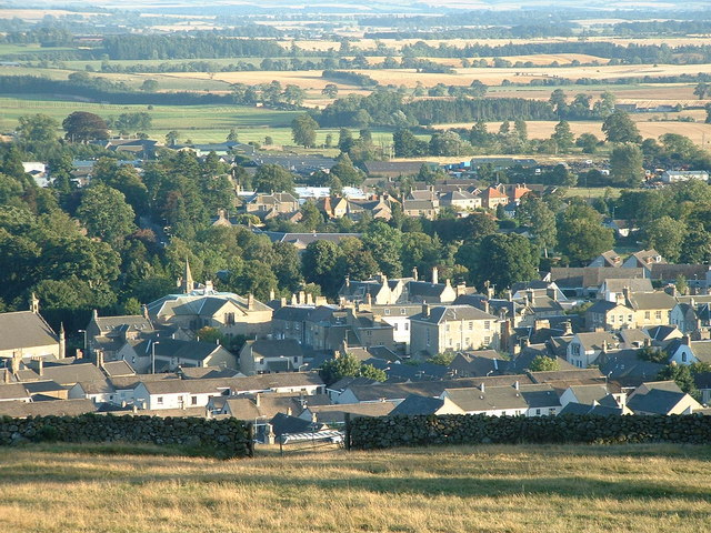 Duns from Duns Law